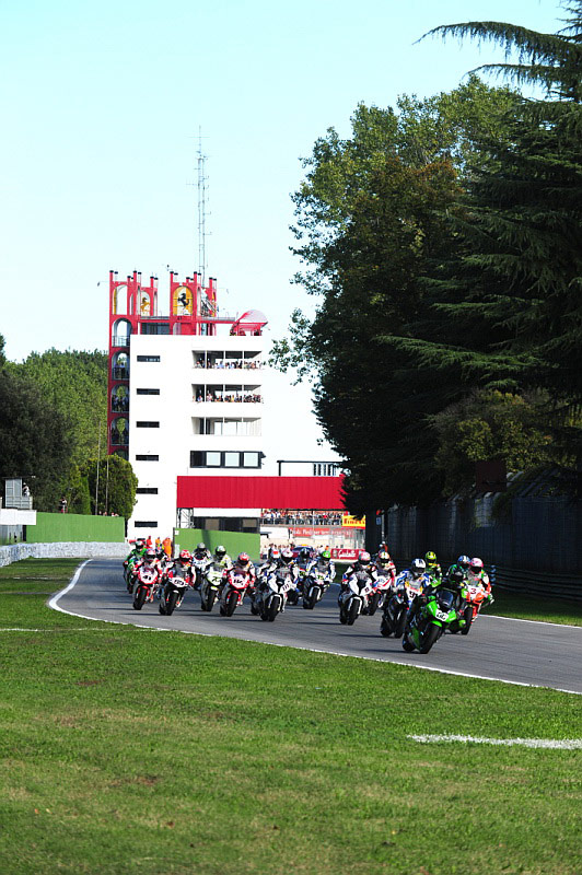 Imola SBK 2010